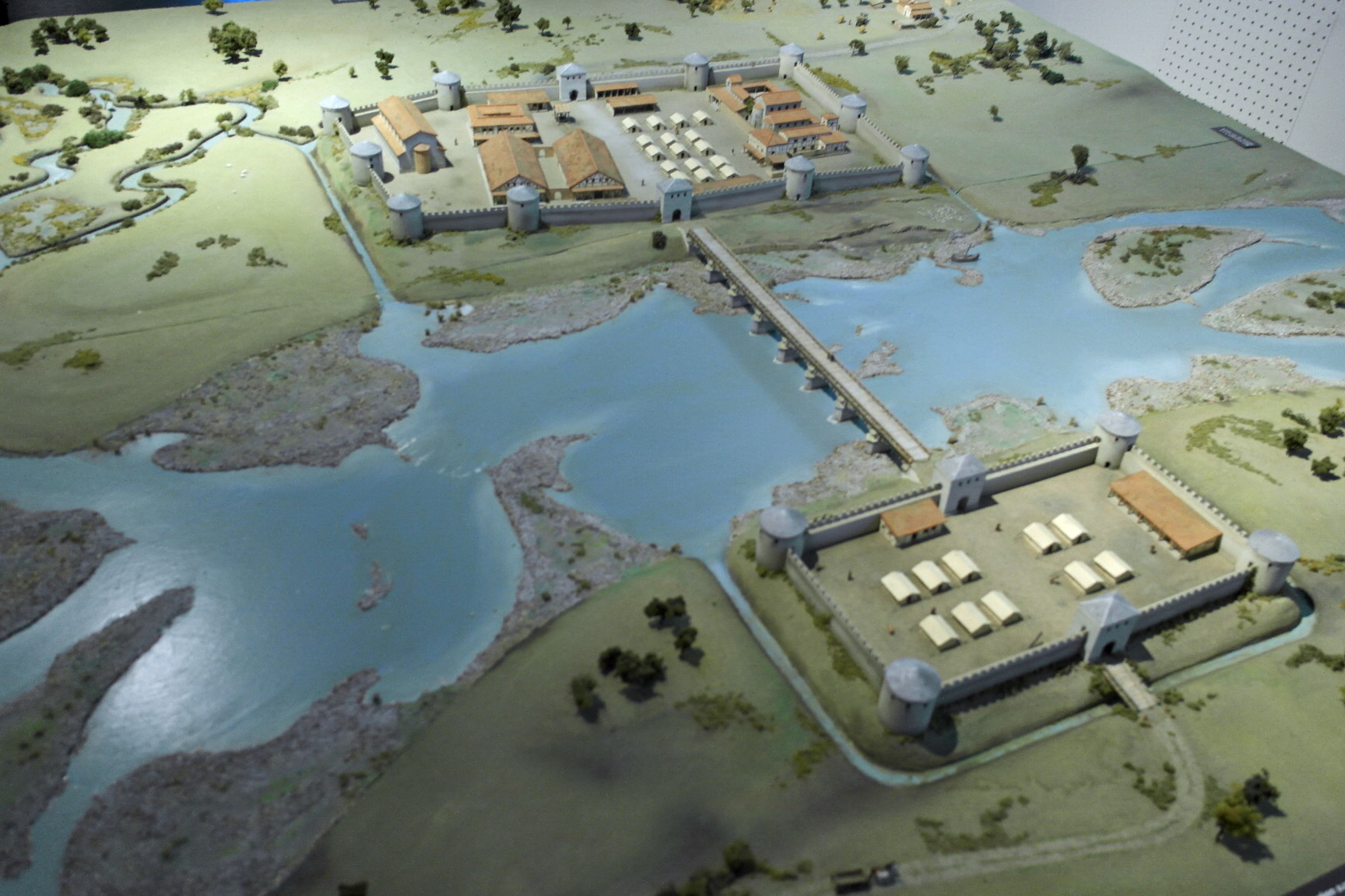 Maastricht, the Netherlands. Scale model of Maastricht in the late-Roman period, after the construction of the castrum (313). The 1992 model by F. Schiffeleers is partly based on archaeological excavations (bridge, roads and castrum left bank), partly on extrapolation (Wyck castrum, some buildings). Photographed in Centre Céramique, November 2014.